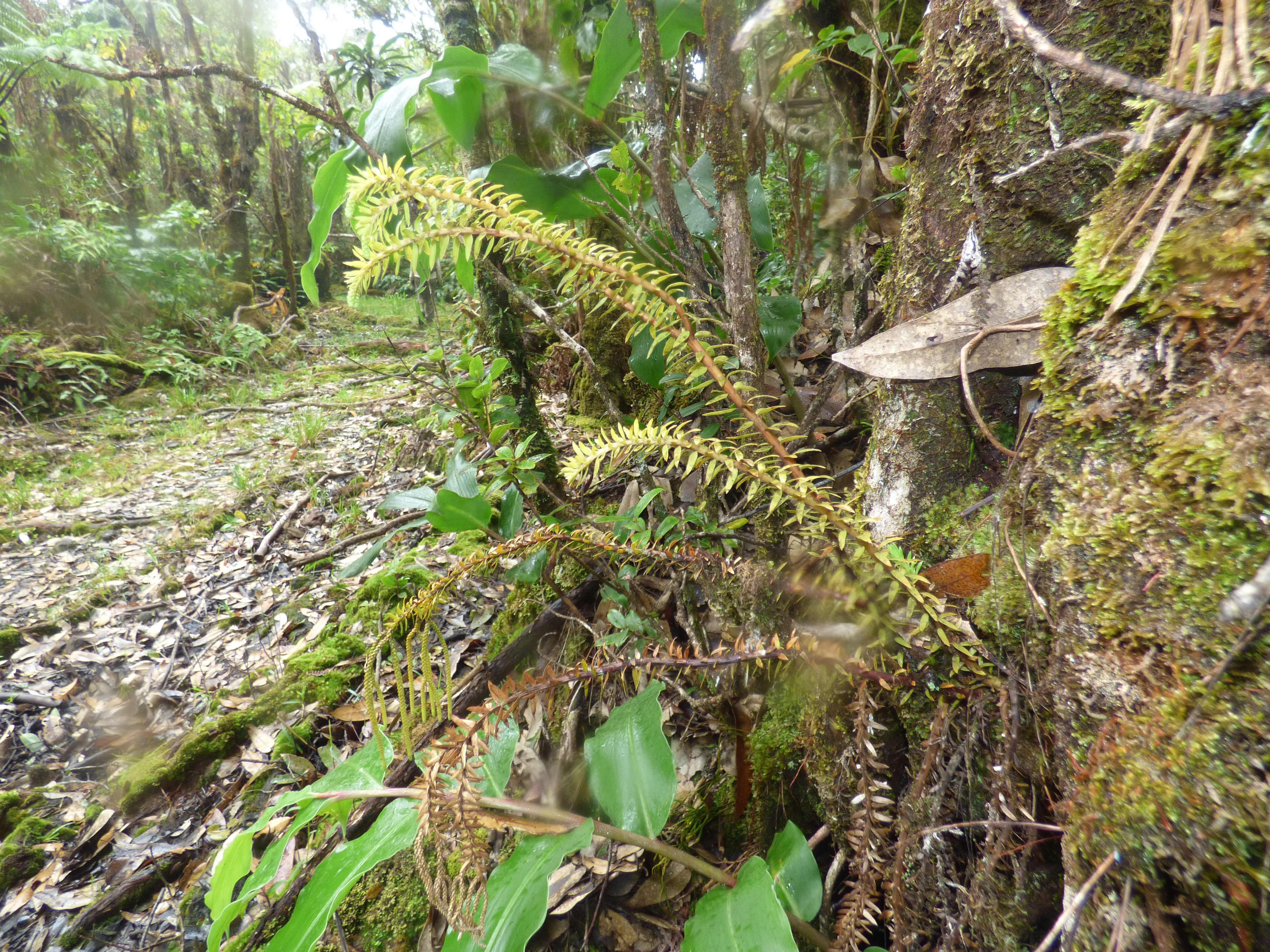 Huperzia phyllantha (Huperzia) Habit at Lower Kula Pipeline Waikamoi, Maui, Hawaii. September 09, 2018 #180909-0881 Image Use Policy Also known as Lycopodium phyllanthum.